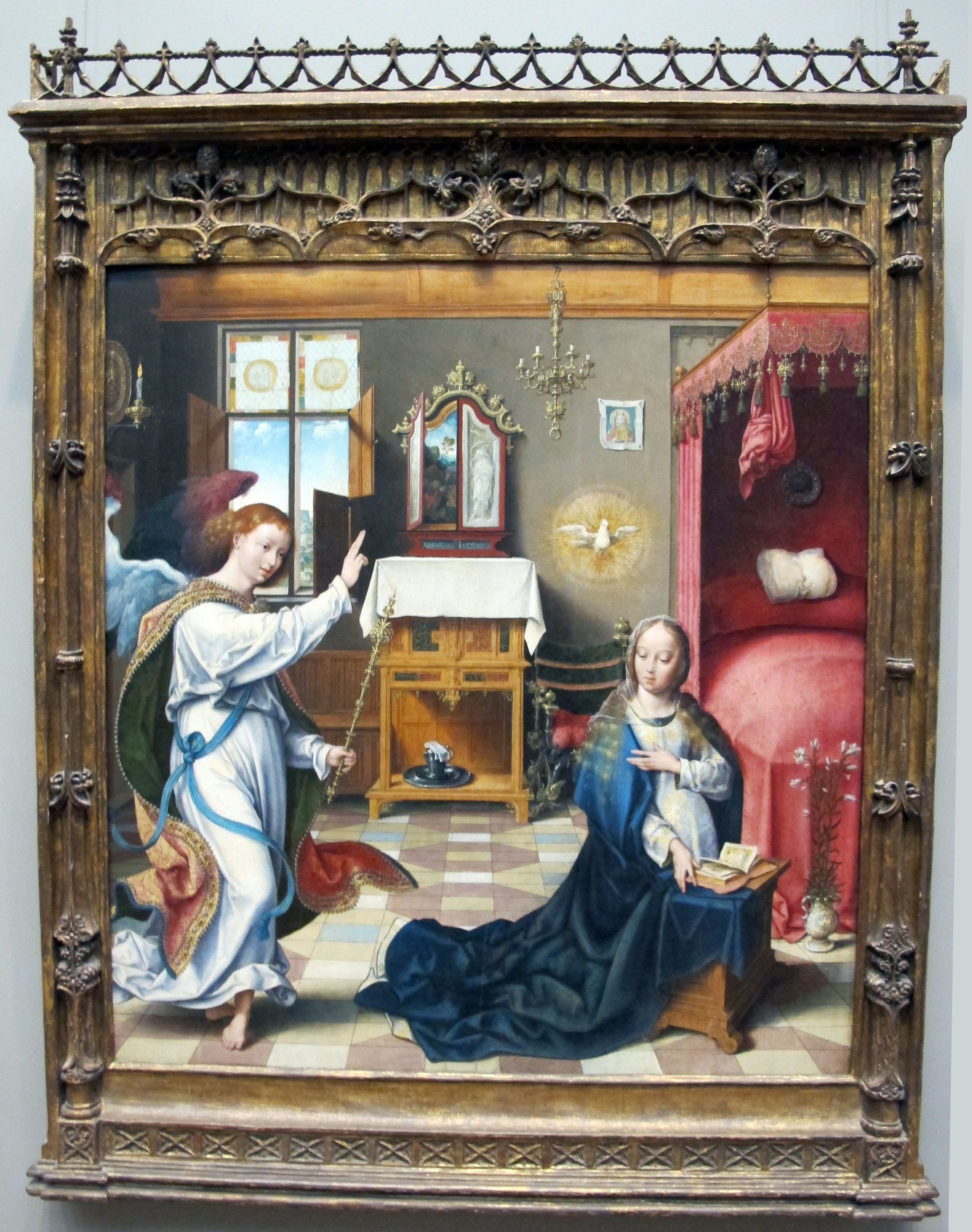 Flemish paintings in the Metropolitan Museum of Art